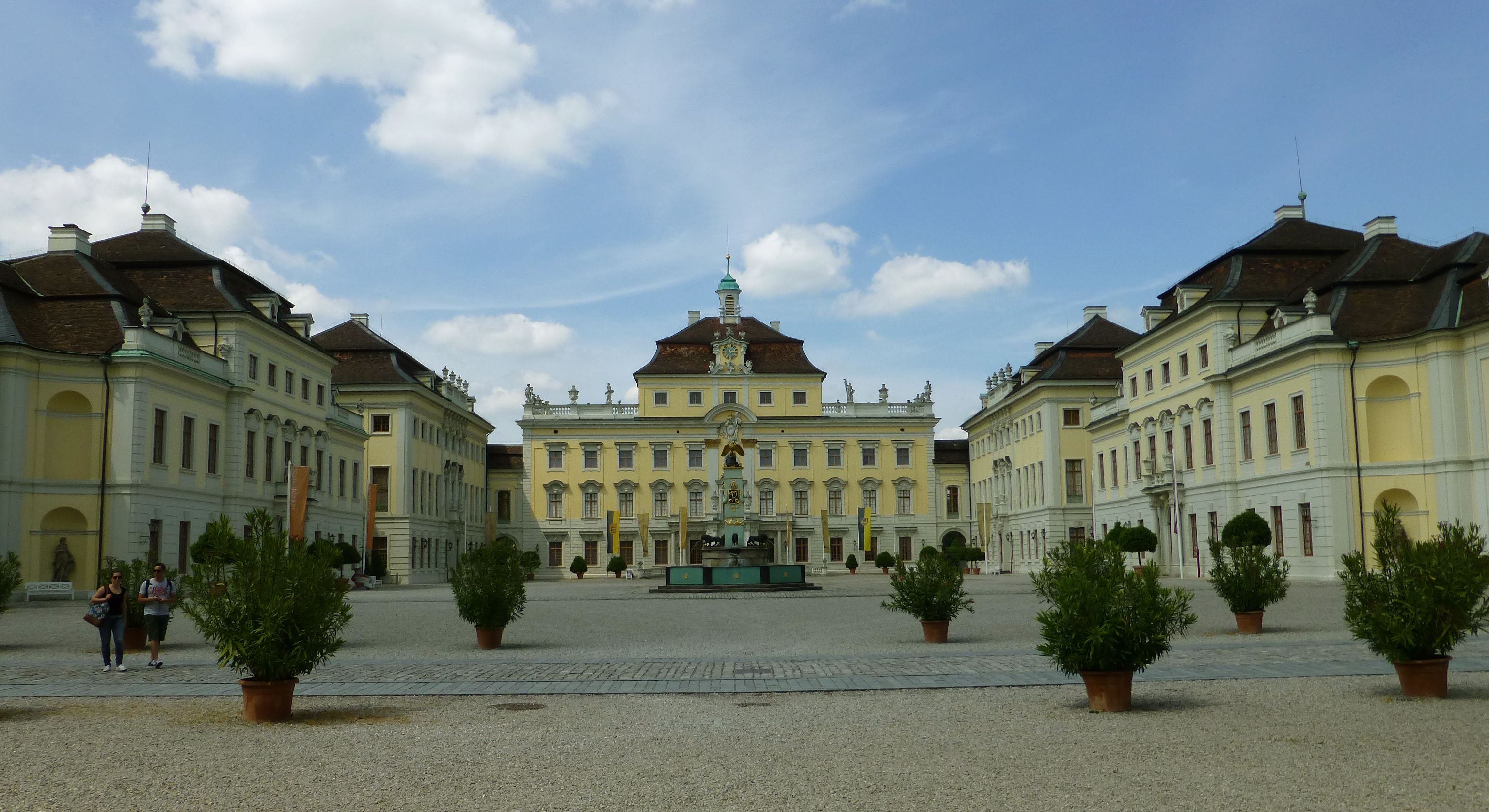 Royal castle of Ludwigsburg, old Corps de logis and fountain.